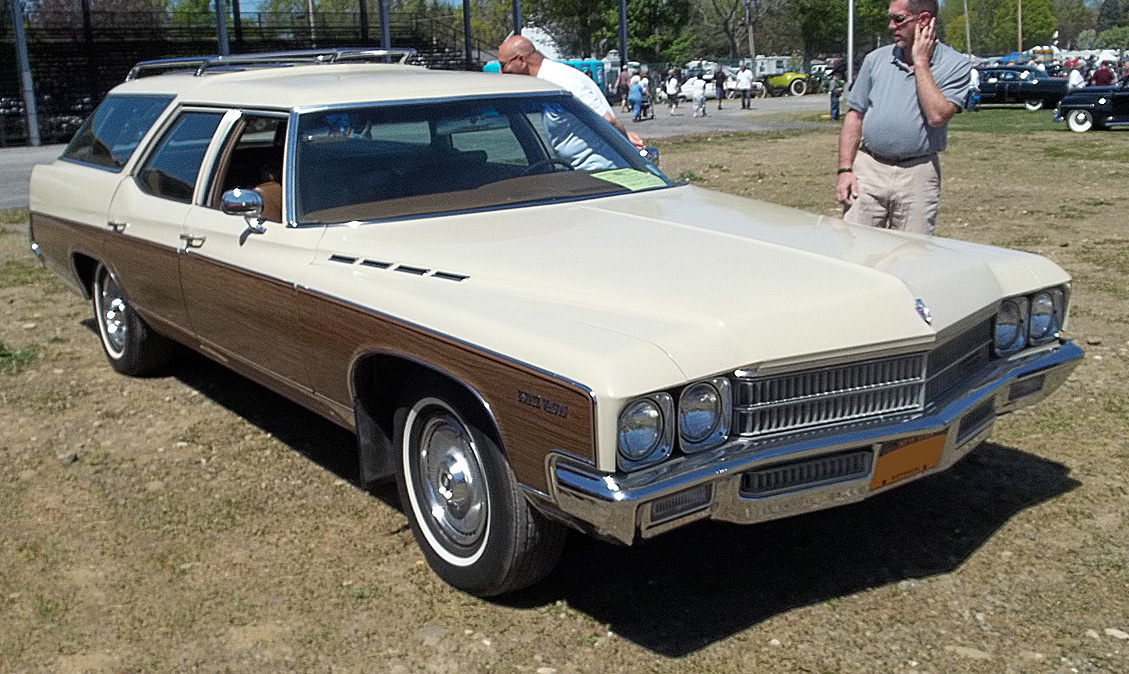 1971 Buick Estate Wagon (Electra), spotted on the show field at the Rhinebeck, NY car show.